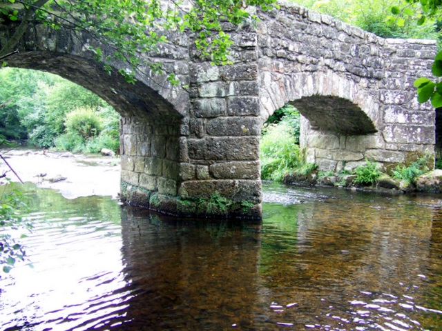 Fingle Bridge Fingle Bridge is a narrow road bridge over the River Teign. It dates from between the 16th and 17th century. The bridge is Grade II listed.